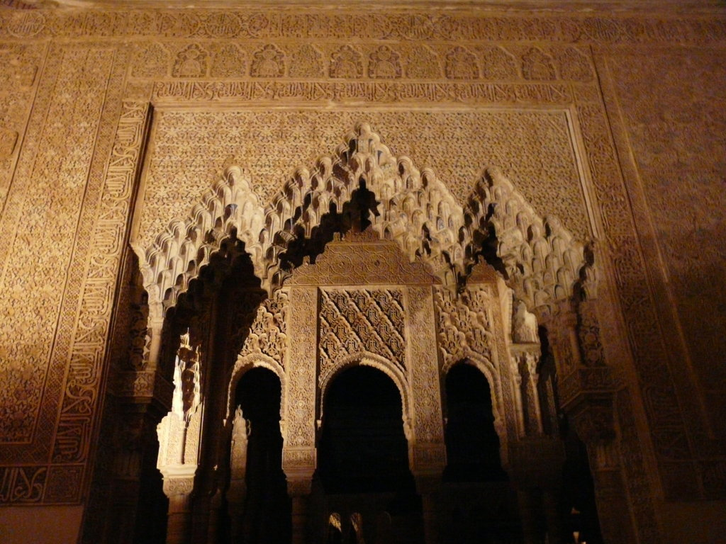 La Alhambra